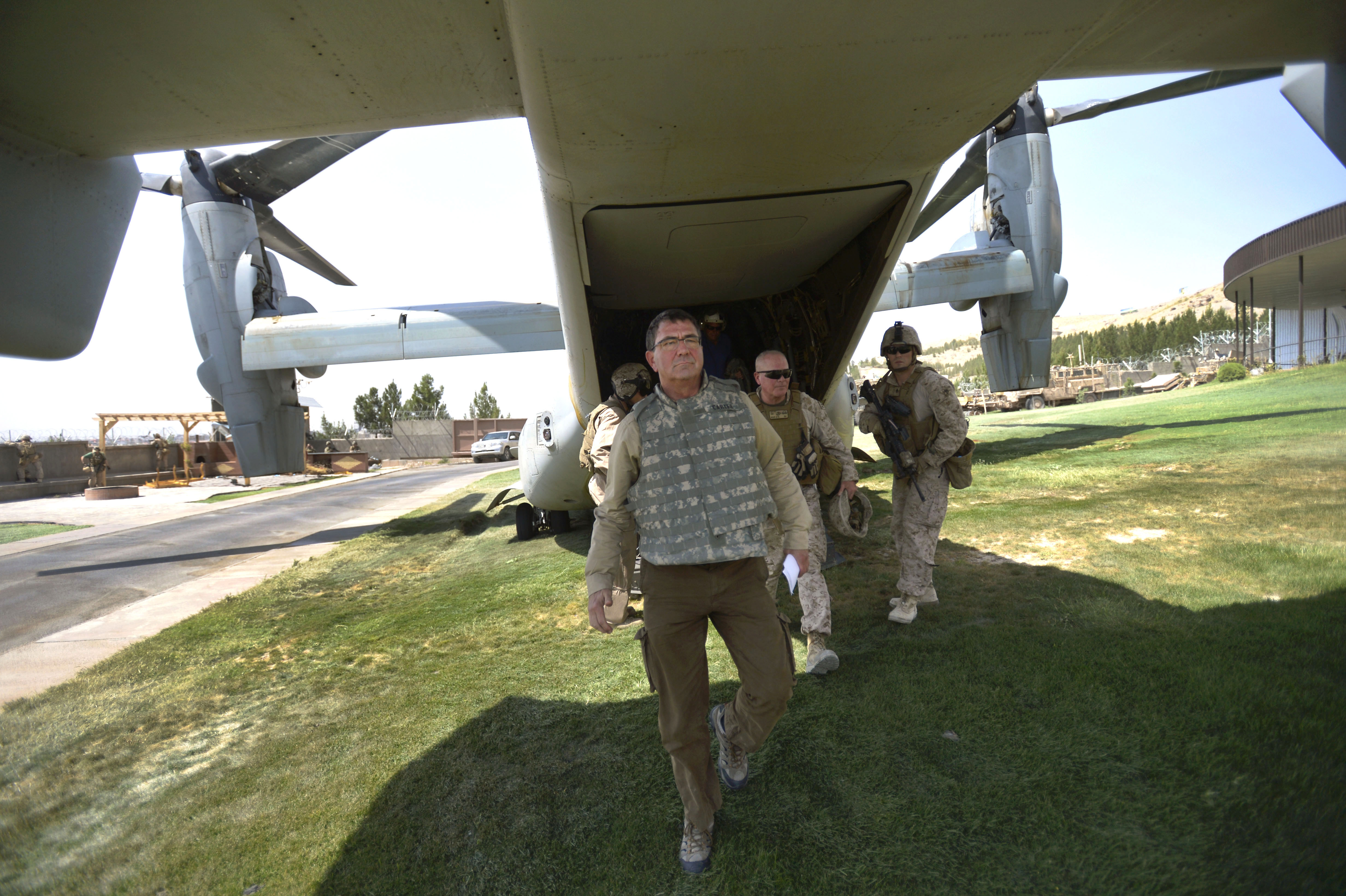 Deputy Secretary of Defense Ashton B. Carter arrives in Herat, Afghanistan, on Sept. 14, 2013, to survey the damage to the U.S. Consulate after it was attacked by the Taliban on Sept. 13th. Carter will meet with the staff and service members at the consulate to be briefed on the attack. Carter is on a weeklong trip to Afghanistan, Pakistan and India to meet with senior leaders and troops deployed to the region